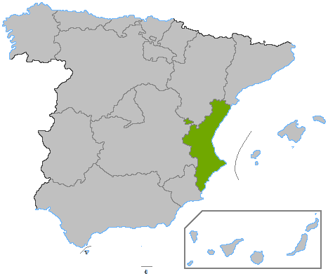 Location of the Valencian Community, in Spain. Basado en: ProvPont.jpg Source: Designed by Satesclop. Original picture, designed by Sobreira.